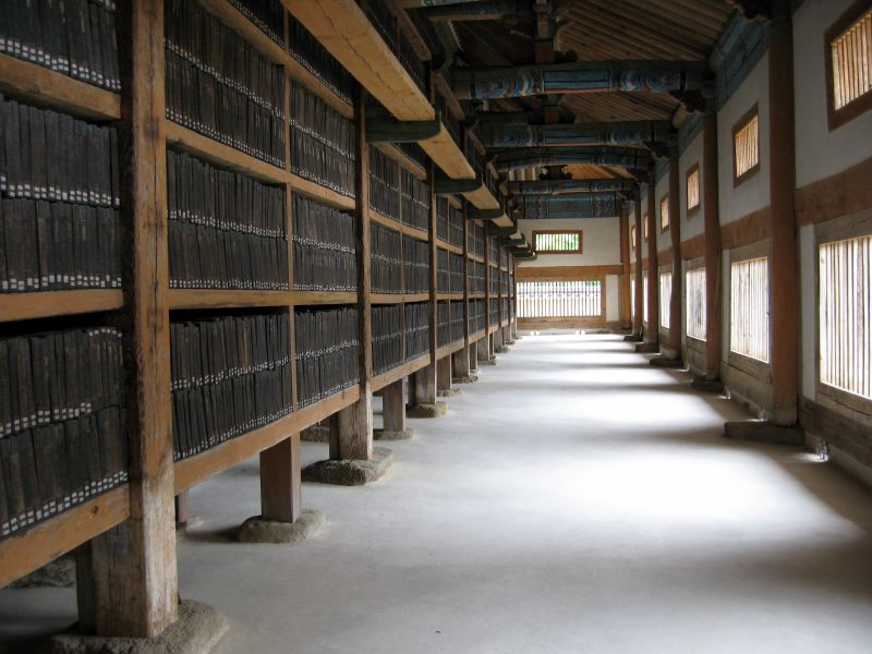 Tripitaka Koreana stored at Haeinsa (해인사, Temple of Reflection on a Smooth Sea) is one of the foremost Chogye Buddhist temples in South Korea. It is most notable for being the home of the Tripitaka Koreana, the whole of the Buddhist Scriptures carved onto 81,258 wooden printing blocks, which it has housed since 1398.